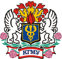 The coat of arms of the Crimean State Medical University (Ukraine)